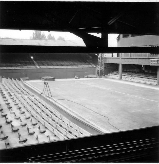 The former Number 1 Court with the outside of the Centre Court to the right, Wimbledon, London